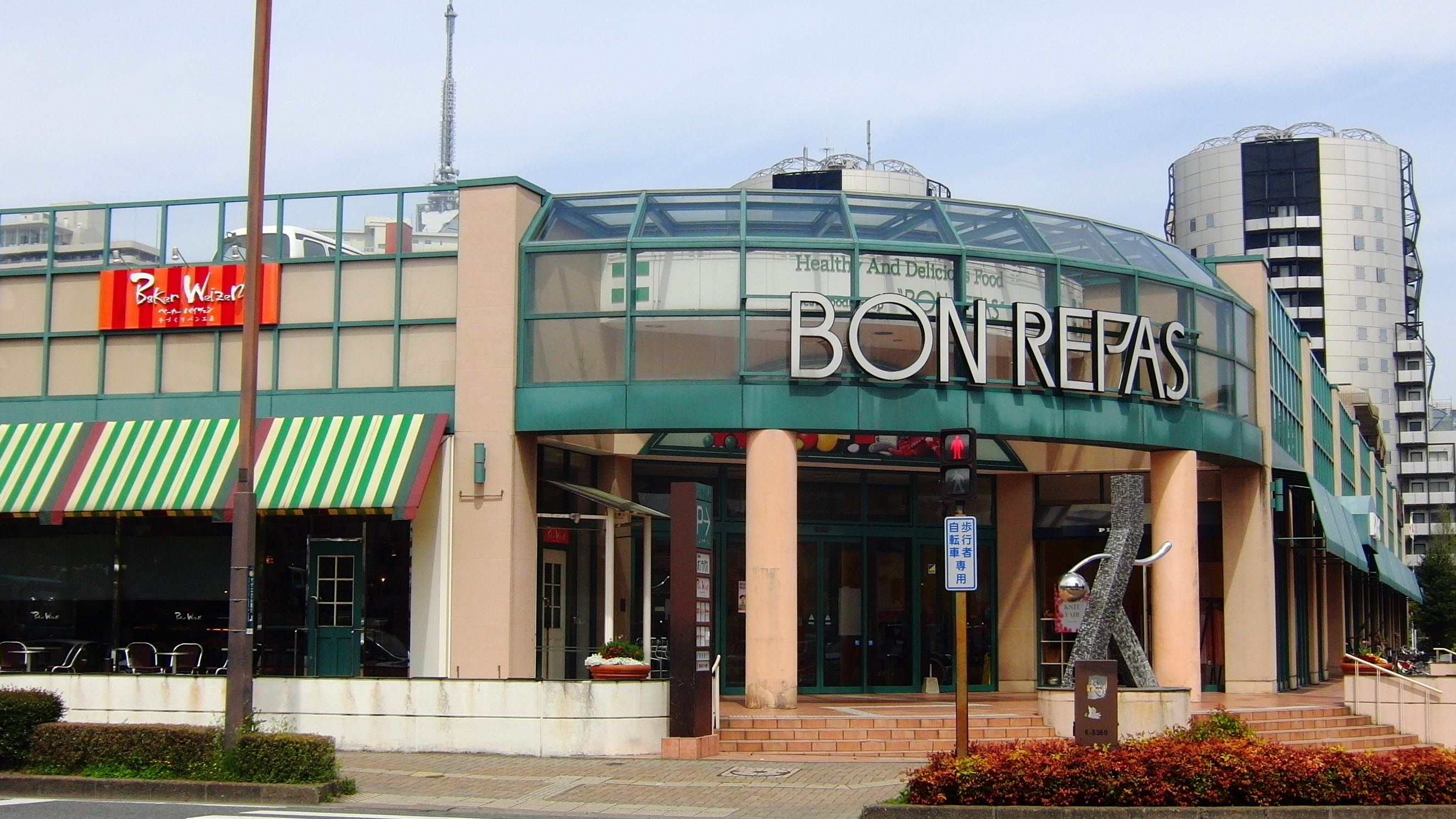 Supermarket "BON REPAS" Momochi store. Momochihama, Sawara-ku, Fukuoka, Japan.